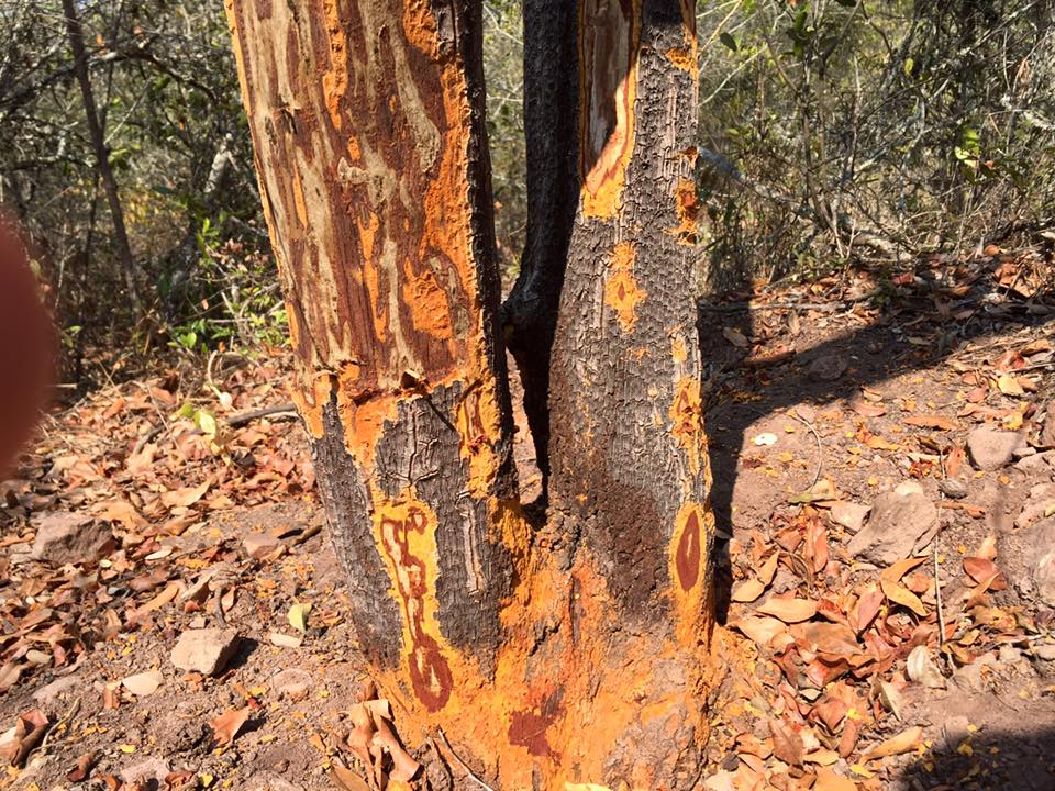 Brackenridgea zanguebarica Oliv. - Brackenridge Reserve, Limpopo Province, South Africa - this nature reserve was set aside to preserve the species as the bark is highly sought after by traditional healers in Venda